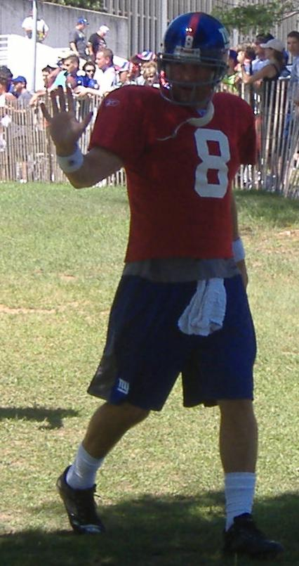 Tim Hasselback pic taken by me at training camp.